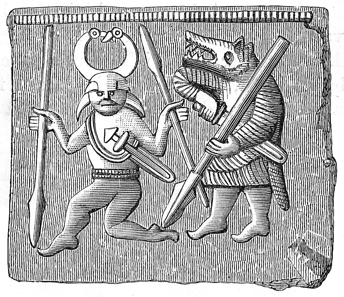 An engraving of an image shown on a Vendel era bronze plate discovered in Öland, Sweden. Depicted are a berserker about to decapitate his enemy on the right and Oden on the left. Oden's famous characters markers are not present.